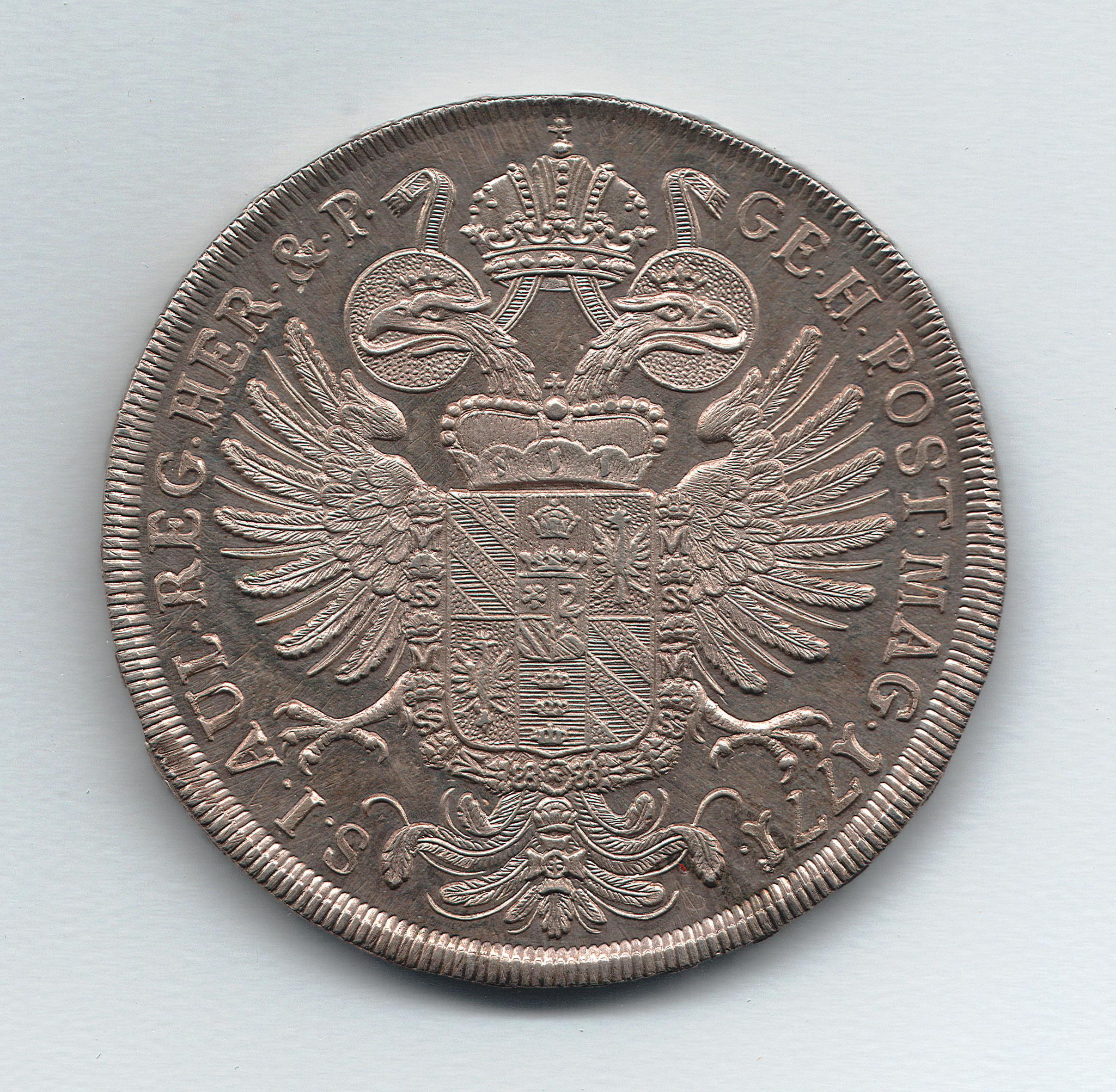 John Wenceslaus Prince Paar Thaler 1771 reverse